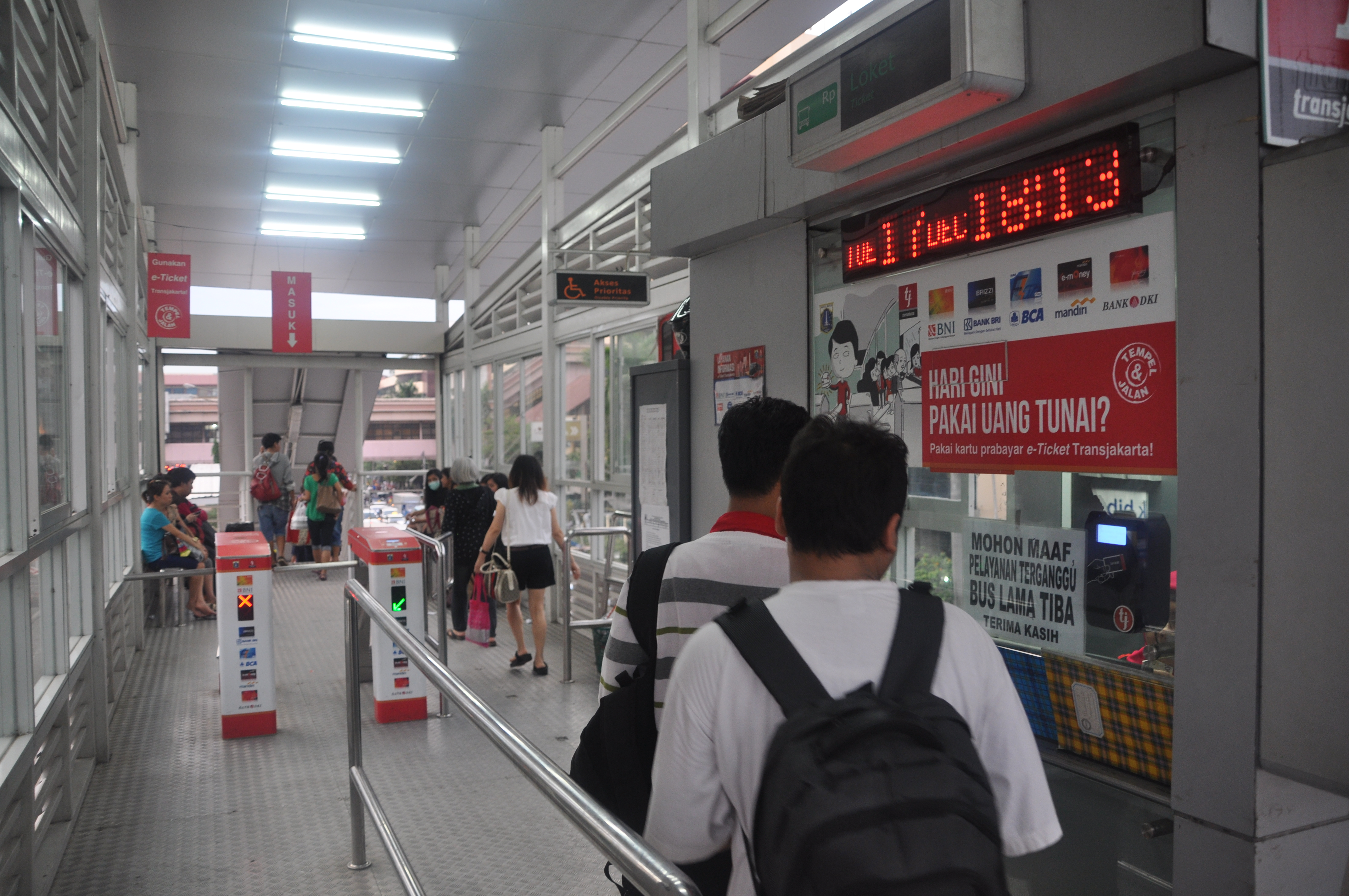 Transjakarta BRT Ticket Booth and gantry in Mangga Dua bus stop, Corridor 12Bahasa Indonesia: Loket tiket Transjakarta di Halte Mangga Dua, Koridor 12